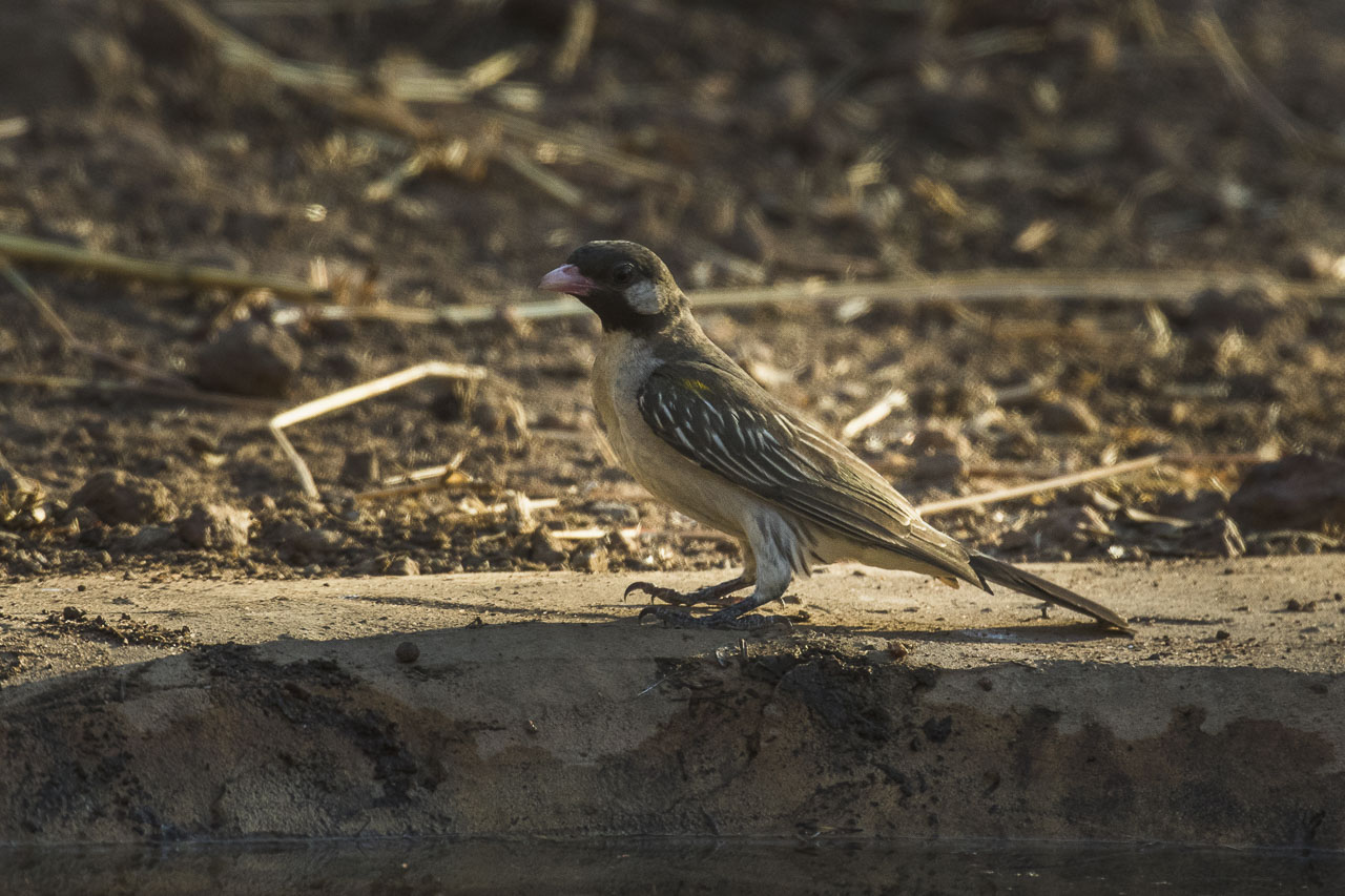 Greater Honeyguide - Gambia 17_CD5A1223